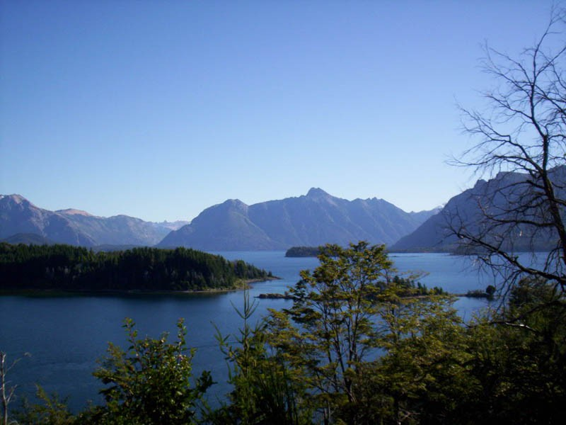 Nahuel Huapi lake, in the provinces of Rio Negro and Neuquen, Argentina